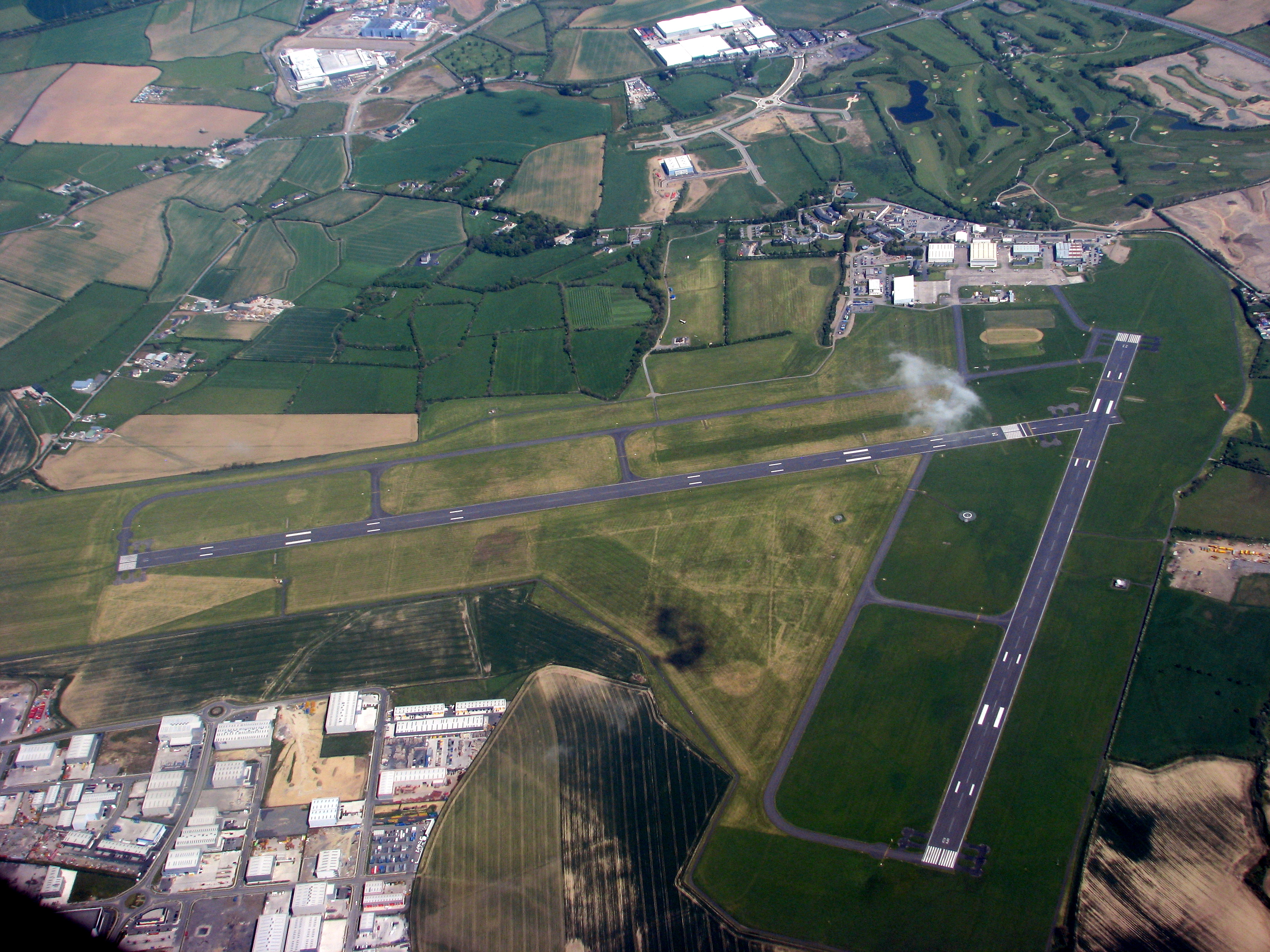 Casement Aerodrome, previously Baldonnel Airfield, is a military airbase located to the south west of Dublin, Ireland used by the Irish Department of Defence.